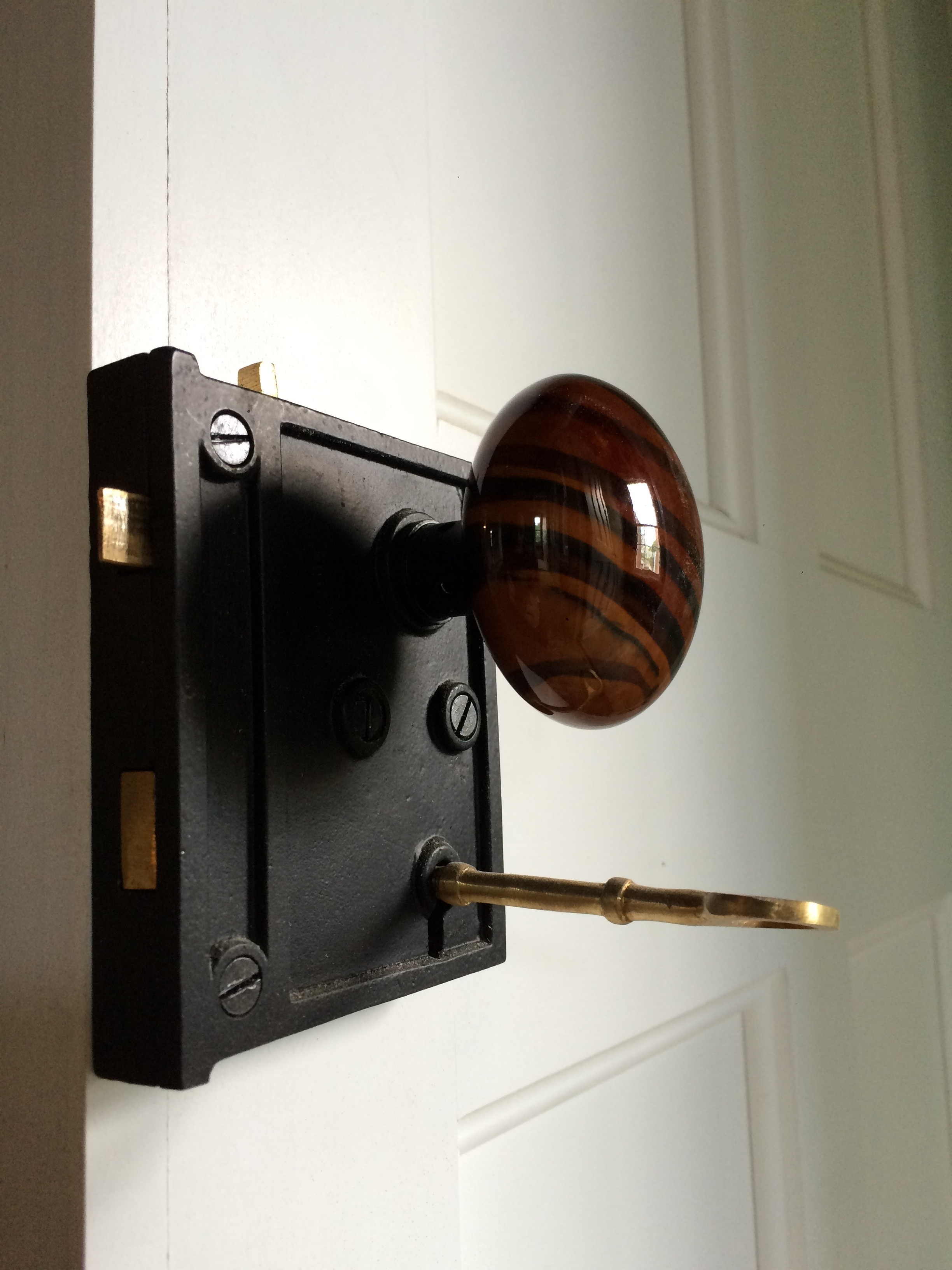 Handle Key Door Lock